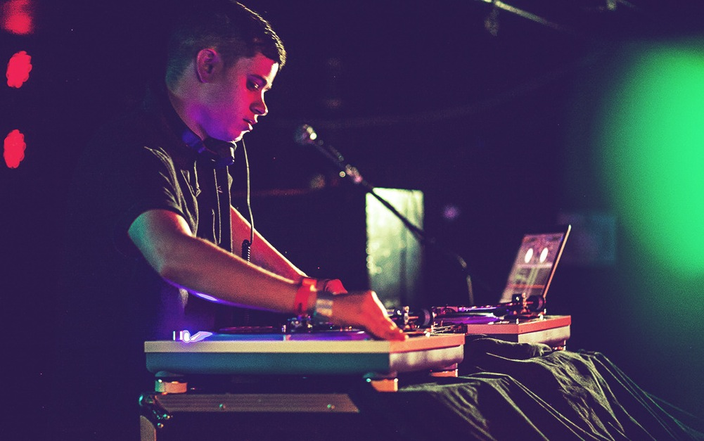 Rustie performing